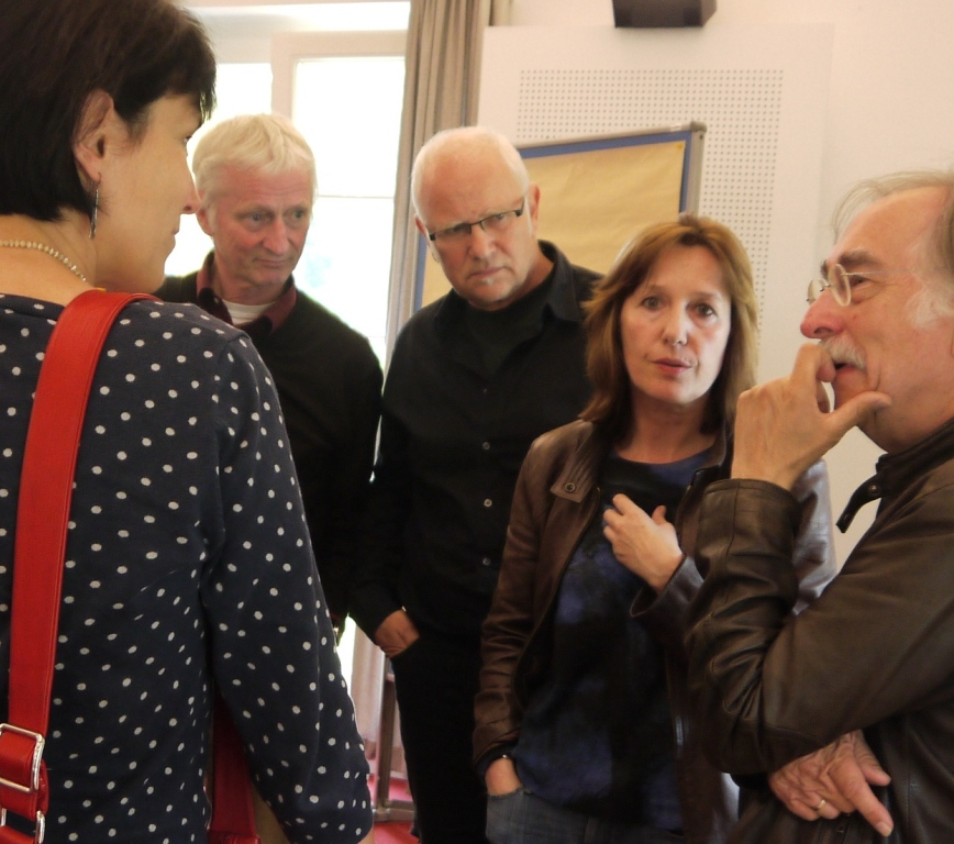 Berlins Emergency-Psychologist Buckwitz, Winther, Günther and Peatsch instructed by Barbara Juen (Innsbruck)